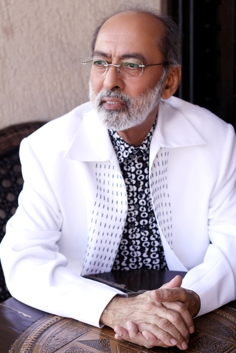 Mohan Deep, Writer and Feng Shui Master